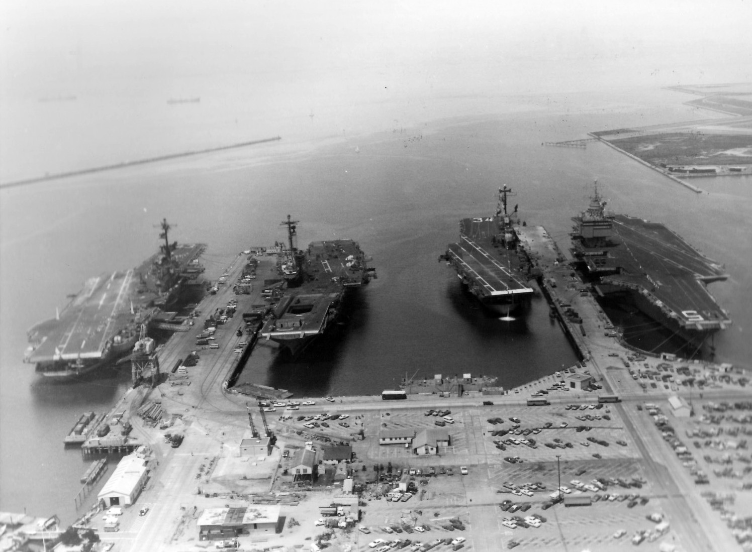 Four U.S. Navy aircraft carriers moored at the Naval Air Station Alameda, California (USA), 4 July 1974. Pictured from left to right are the carriers USS Coral Sea (CVA-43), USS Hancock (CVA-19), USS Oriskany (CVA-34) and USS Enterprise (CVAN-65).